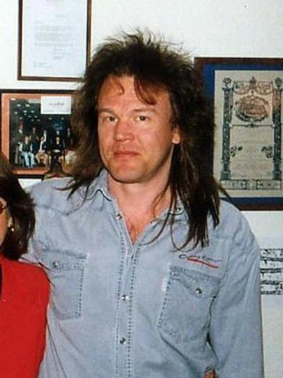 Curt-Åke StefanPlace: Stage Freight office, Skeppsbron 24, Stockholm, Sweden